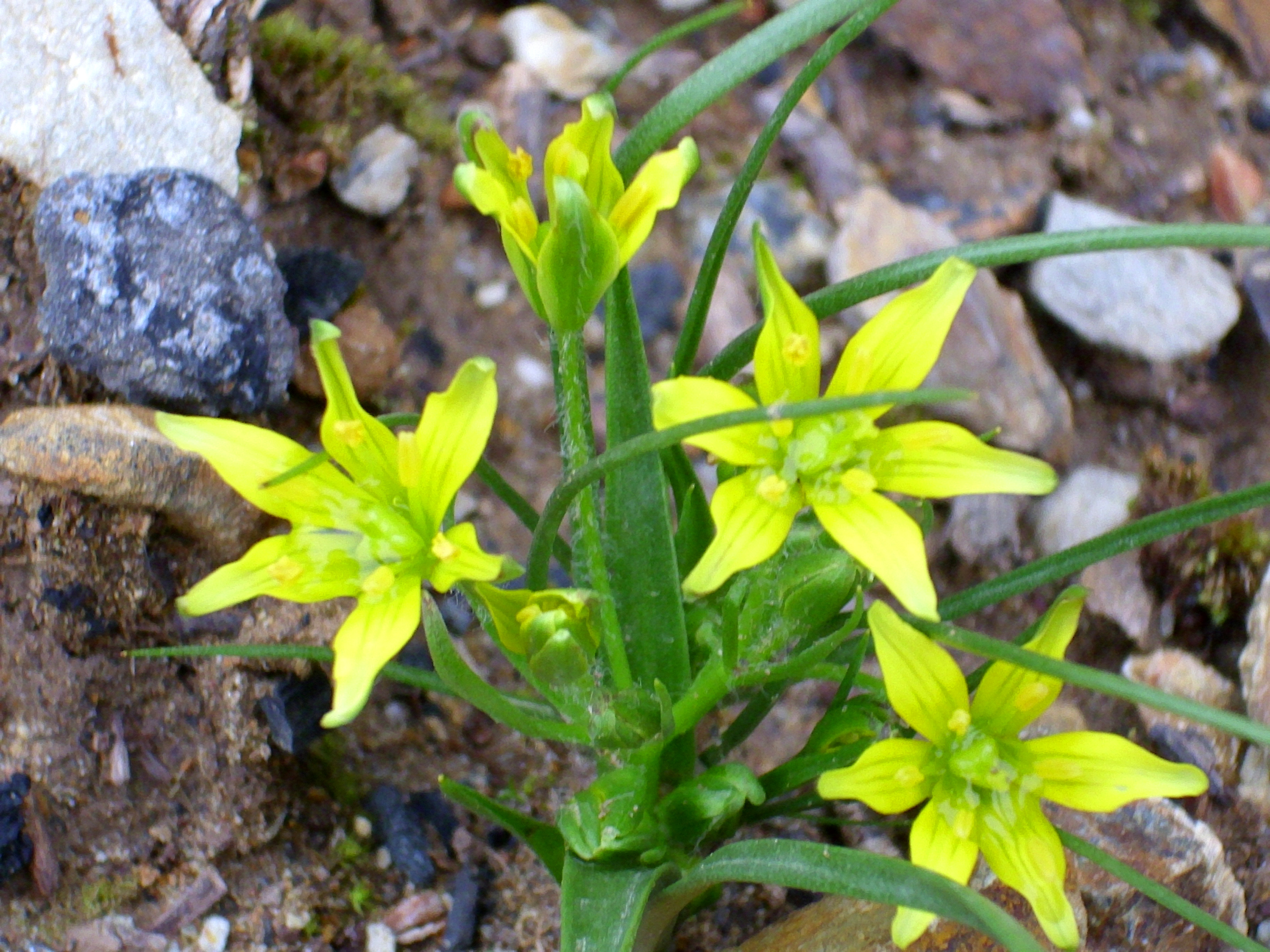 Gagea elliptica flowers close up, Las Lagunillas, Sierra Madrona, Spain